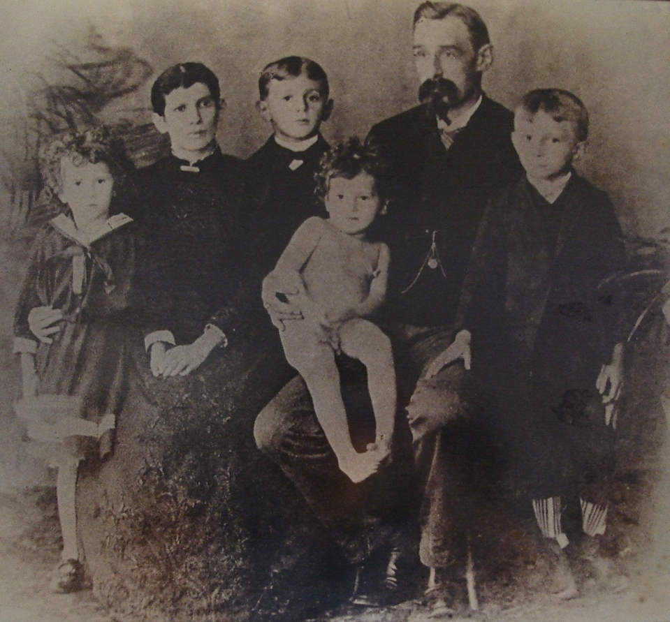 Cristiano Lauritzen (1847 — 1923), mayor of Campina Great (1904-1923) with his wife and children in 1896